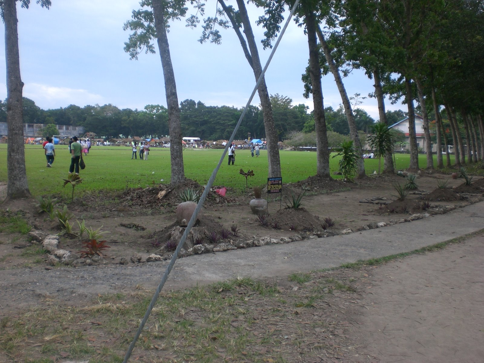 The ground of University of Southern Mindanao. In front of College of Bushiness Development Management